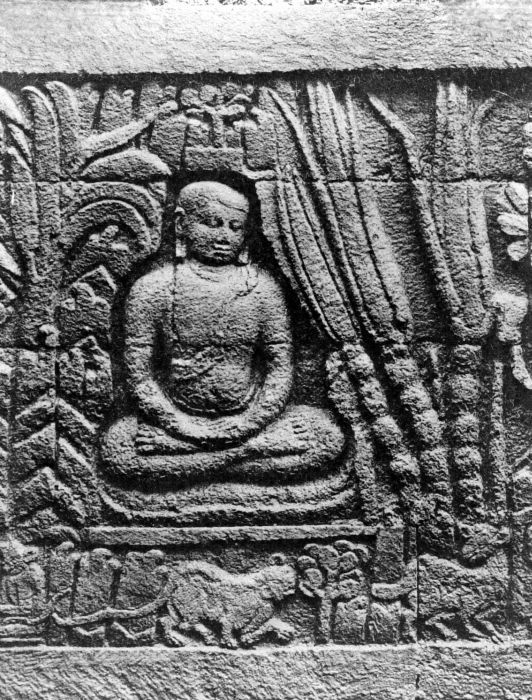 Part of relief O 105 at the hidden foot of the Borobudur